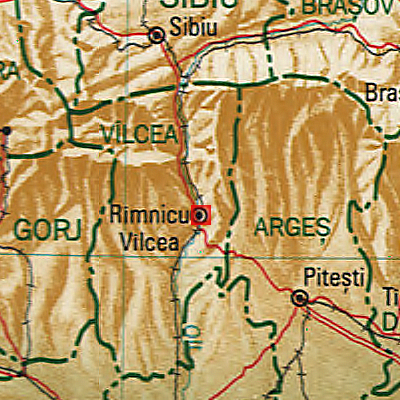 Map of Râmnicu Vâlcea Municipality, Romania.